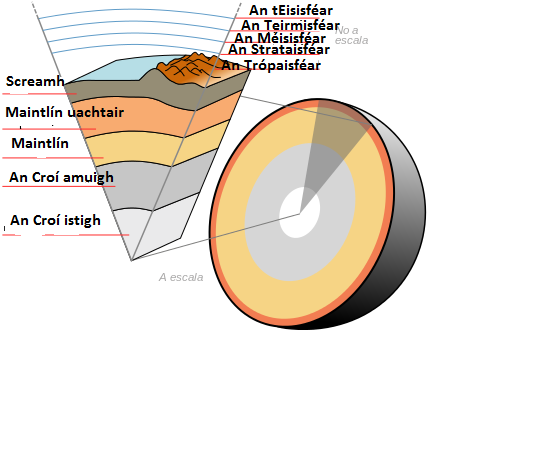 Earth's crust- cutaway- Irish Gaelic